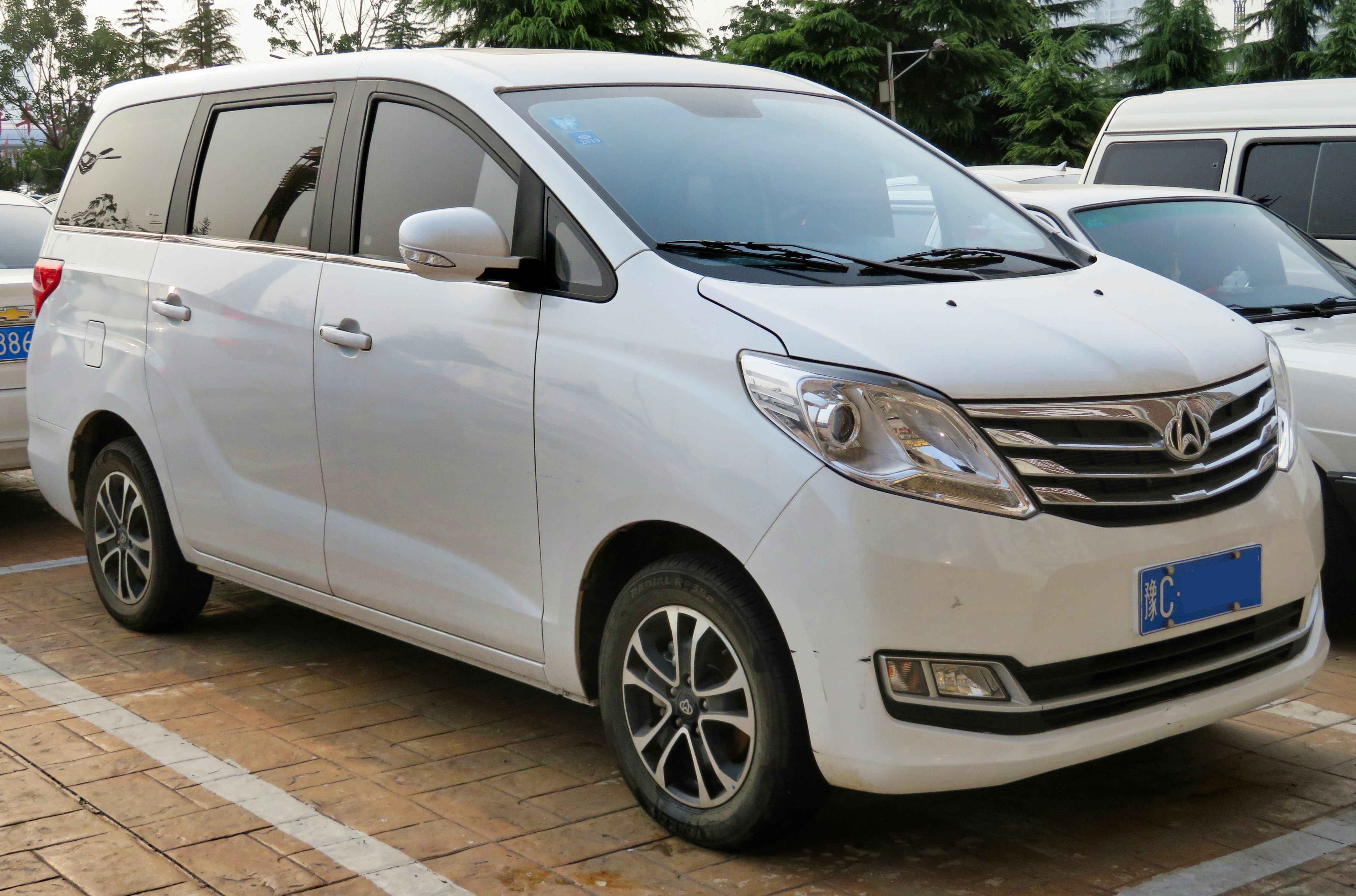 A 2018 Chang'an Ruixing S50 photographed in Luolong District, Luoyang, Henan province, China